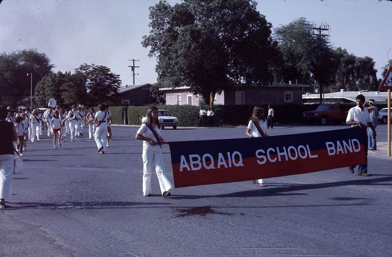 Abqaiq Parade